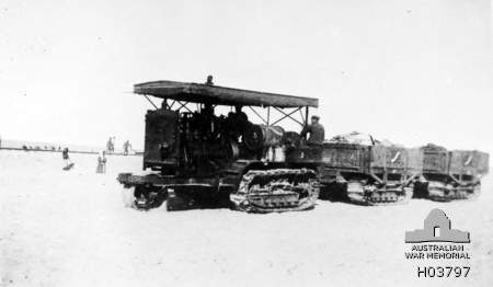 An Australian Army Caterpillar tractor in 1917 in Palestine